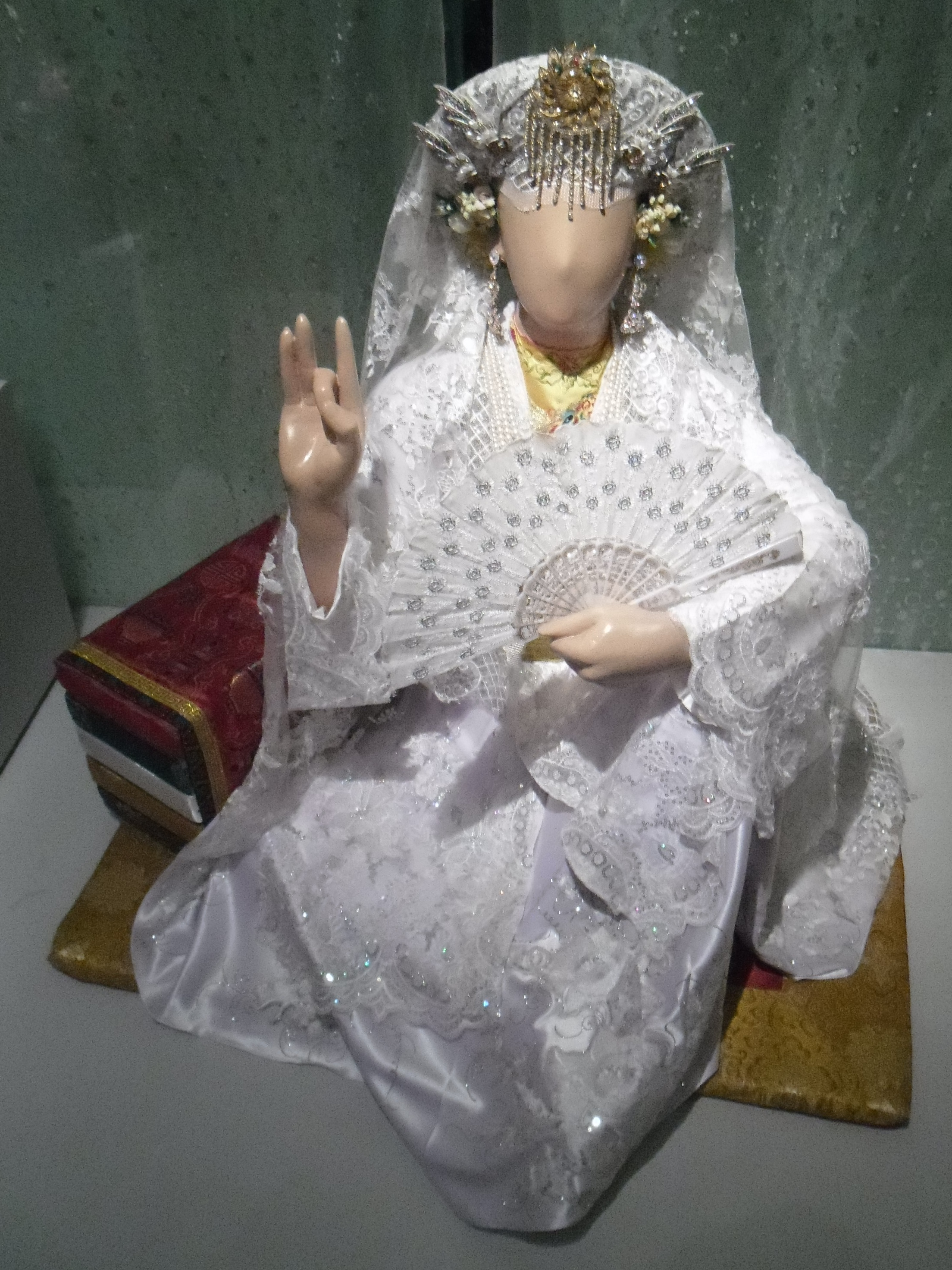 Trang phục màu trắng dùng cho tượng Mẫu Thoải và người hầu đồng mặc khi Mẫu Thoải nhập (White clothing usually use to decorate statues of Water Mother God and use in Hát văn performance)